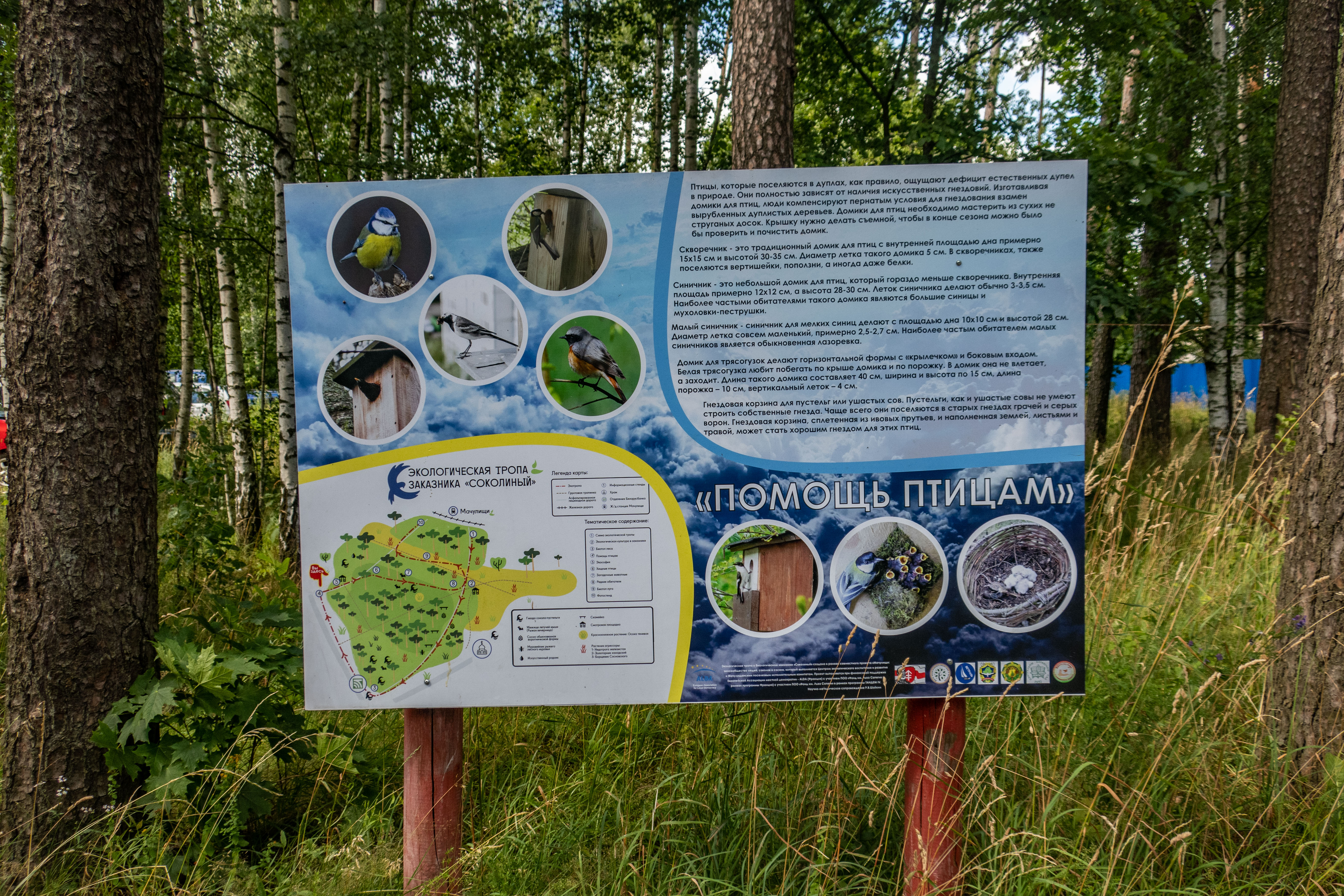 Sakaliny (Falcon's) local biological reserve. Minsk district, Belarus